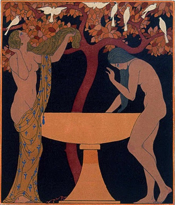 Illustration Georges Barbier (1882-1932) for: The songs of Bilitis by Pierre Louys 1922